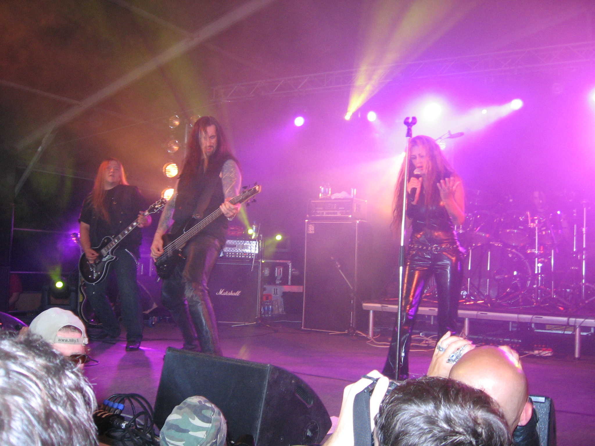 Imperia playing at Tuska Open Air Metal Festival 2007